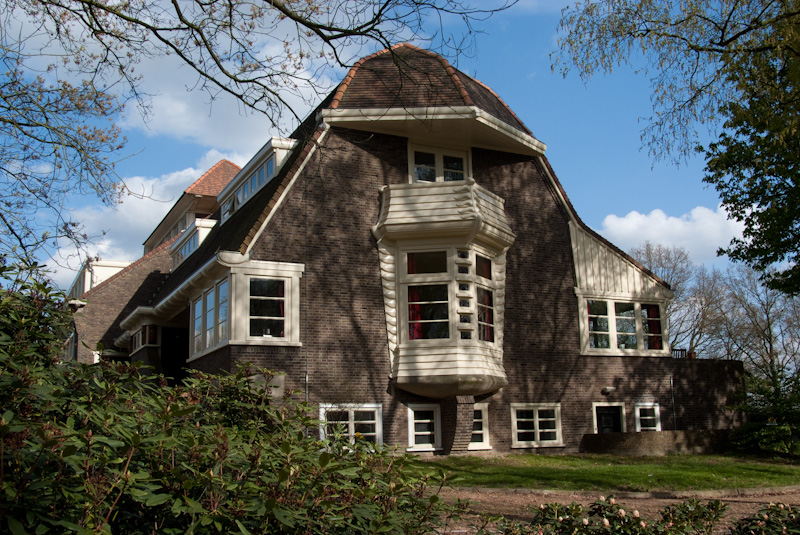 building designed by architect Blaauw